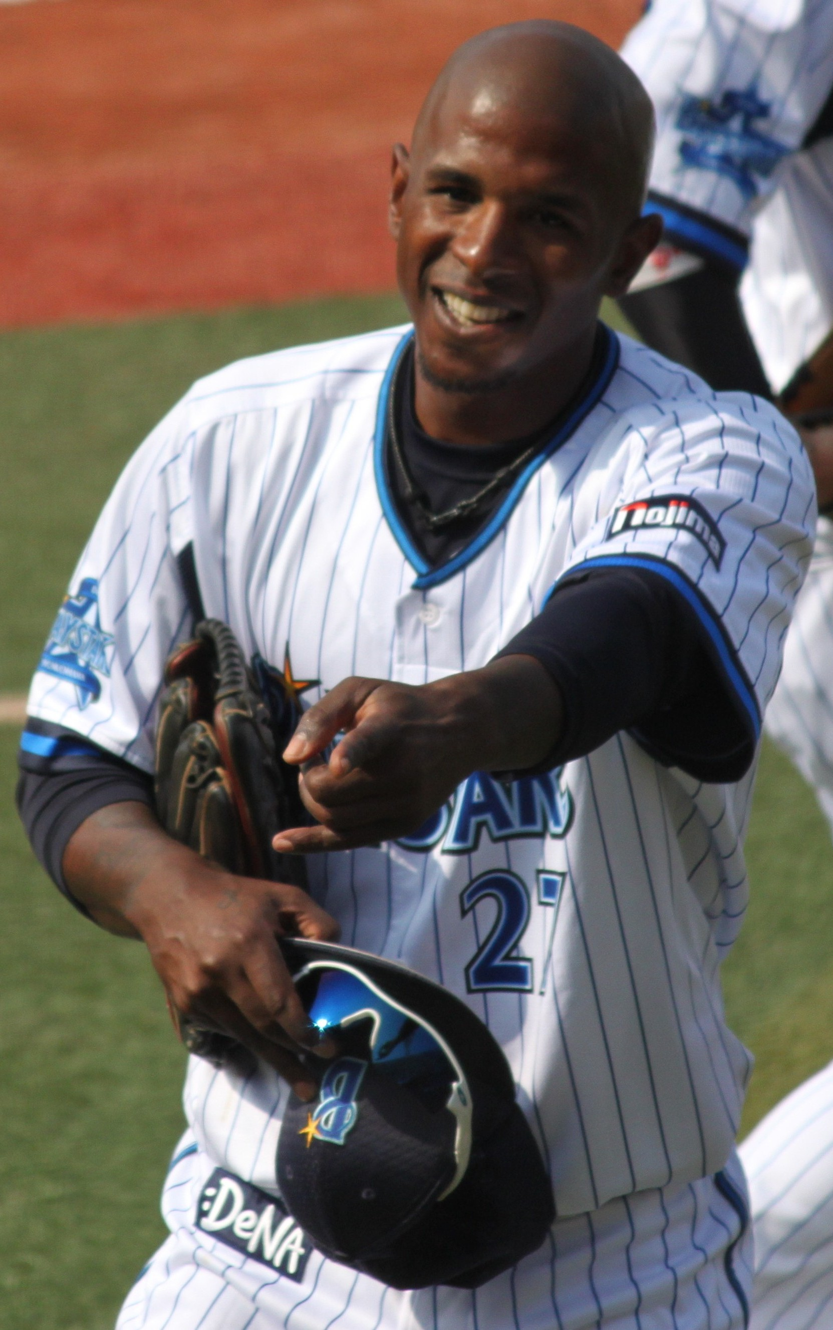 Nyjer Morgan, outfielder of the Yokohama DeNA BayStars, at Yokohama Stadium.